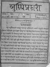 Buddhi Prakash, Gujarati periodical 1850